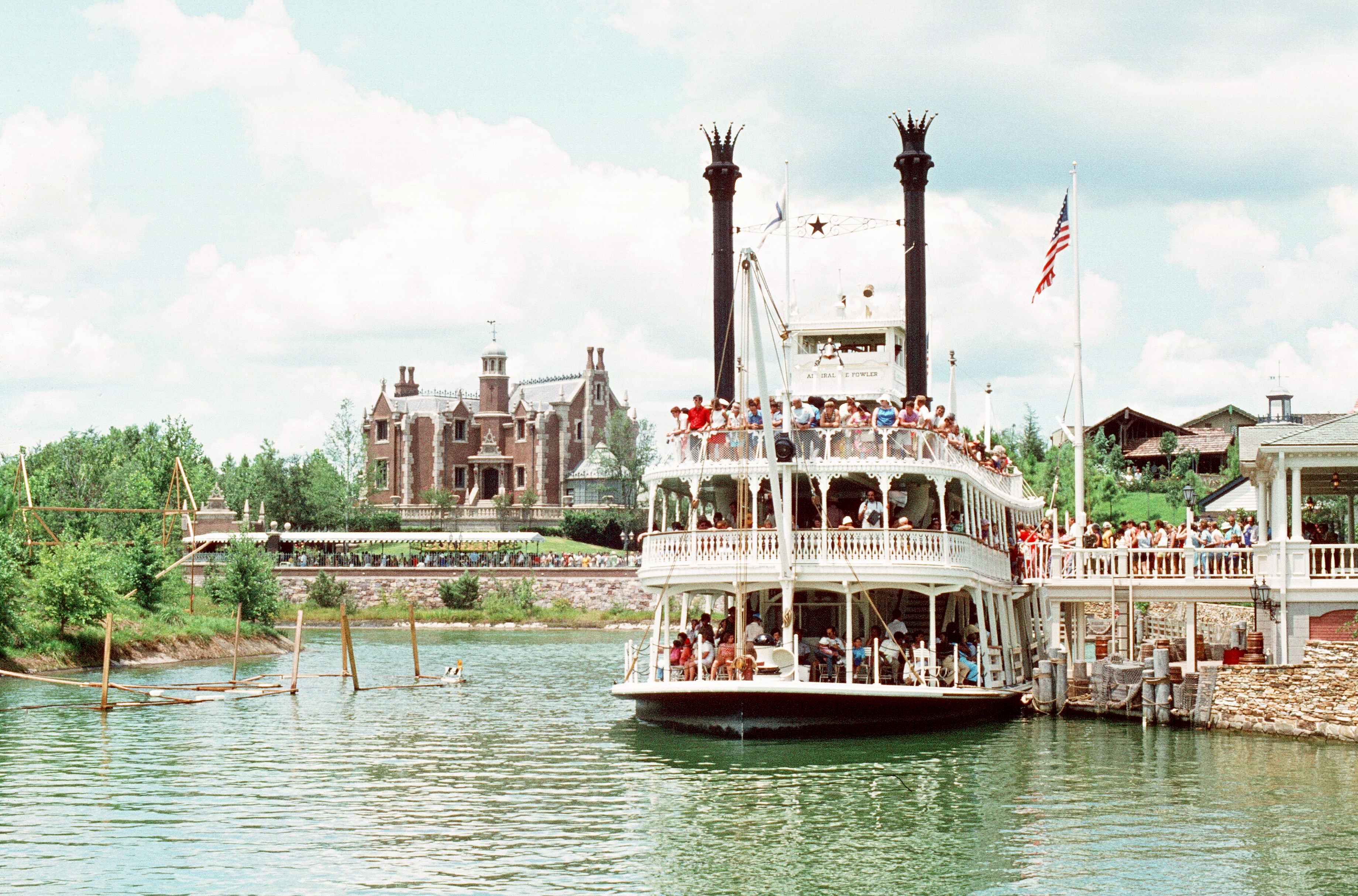 One of a series of family photos taken during a vacation, probably August 1972